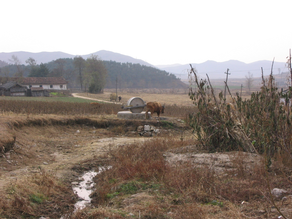 Ox mill in North Korea